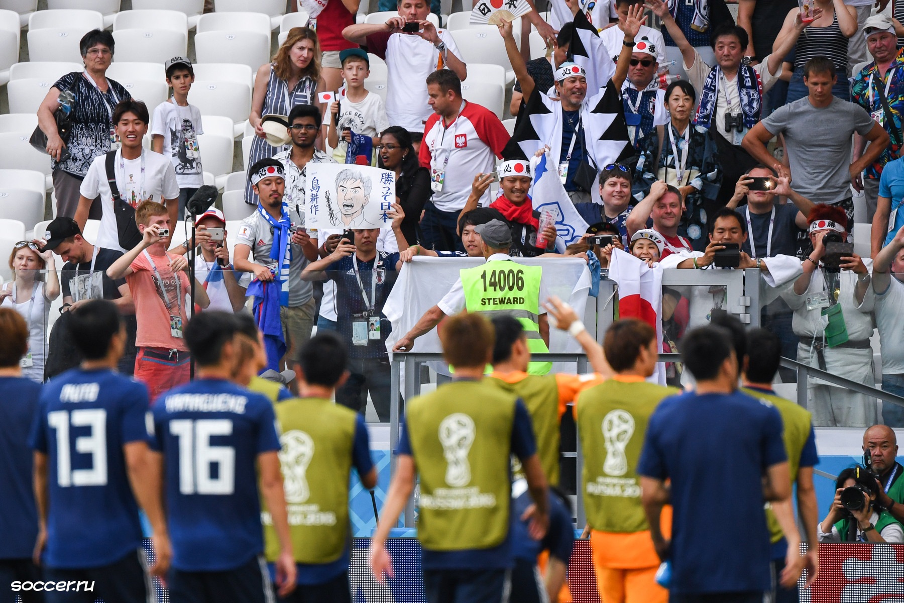 Japan vs Poland match